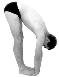 Ardha Pádahastásana